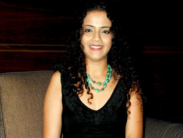 Gauri Karnik at the Audio release of 'Impatient Vivek'